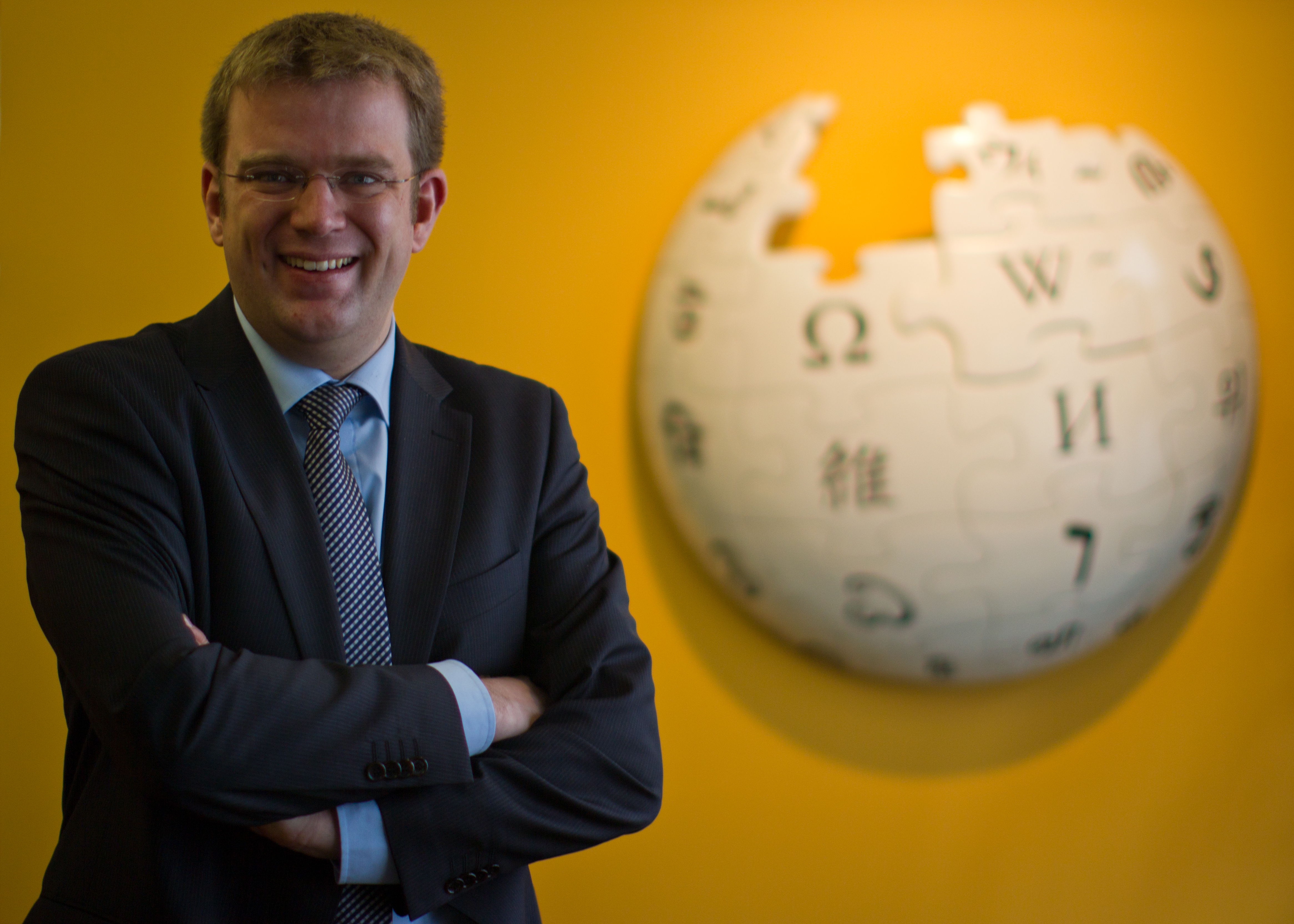 Dr. Reinhard Brandl, Member of the German Bundestag, at the Wikimedia Foundation February 13 2012